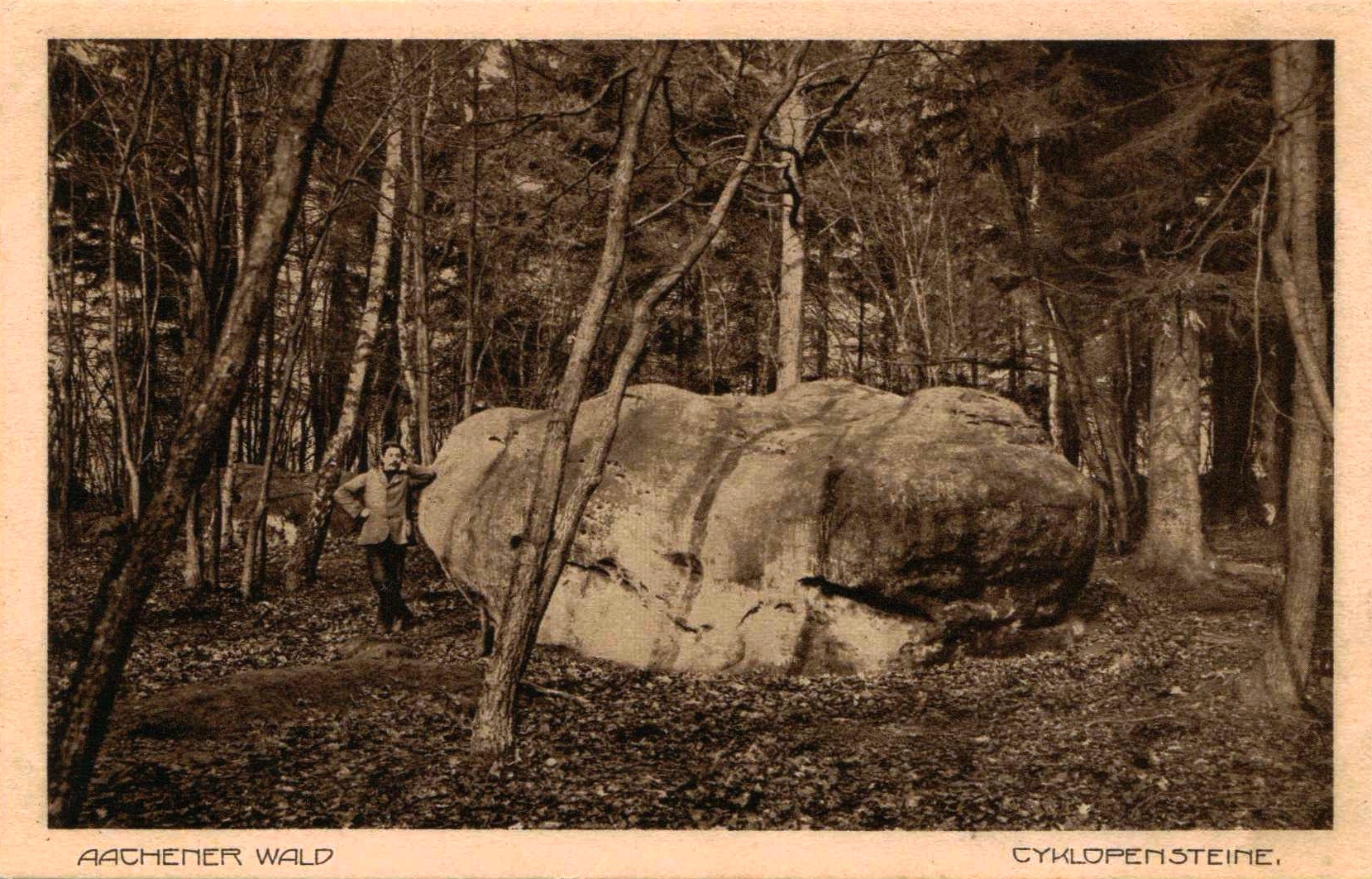 The Cyclopsstones ​​(historical view) in the Aachen forest